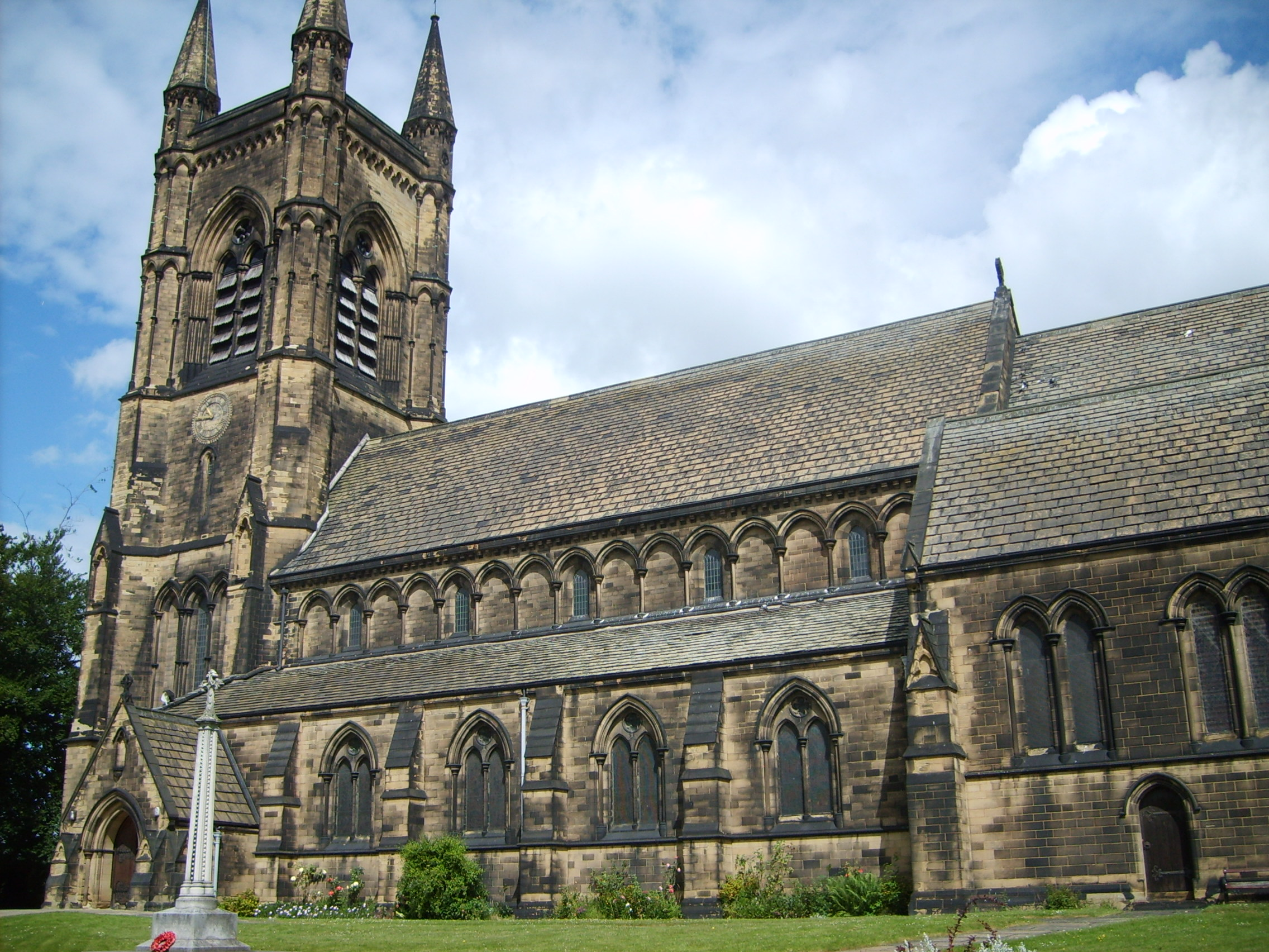 St. Mary's Church, Mirfield.